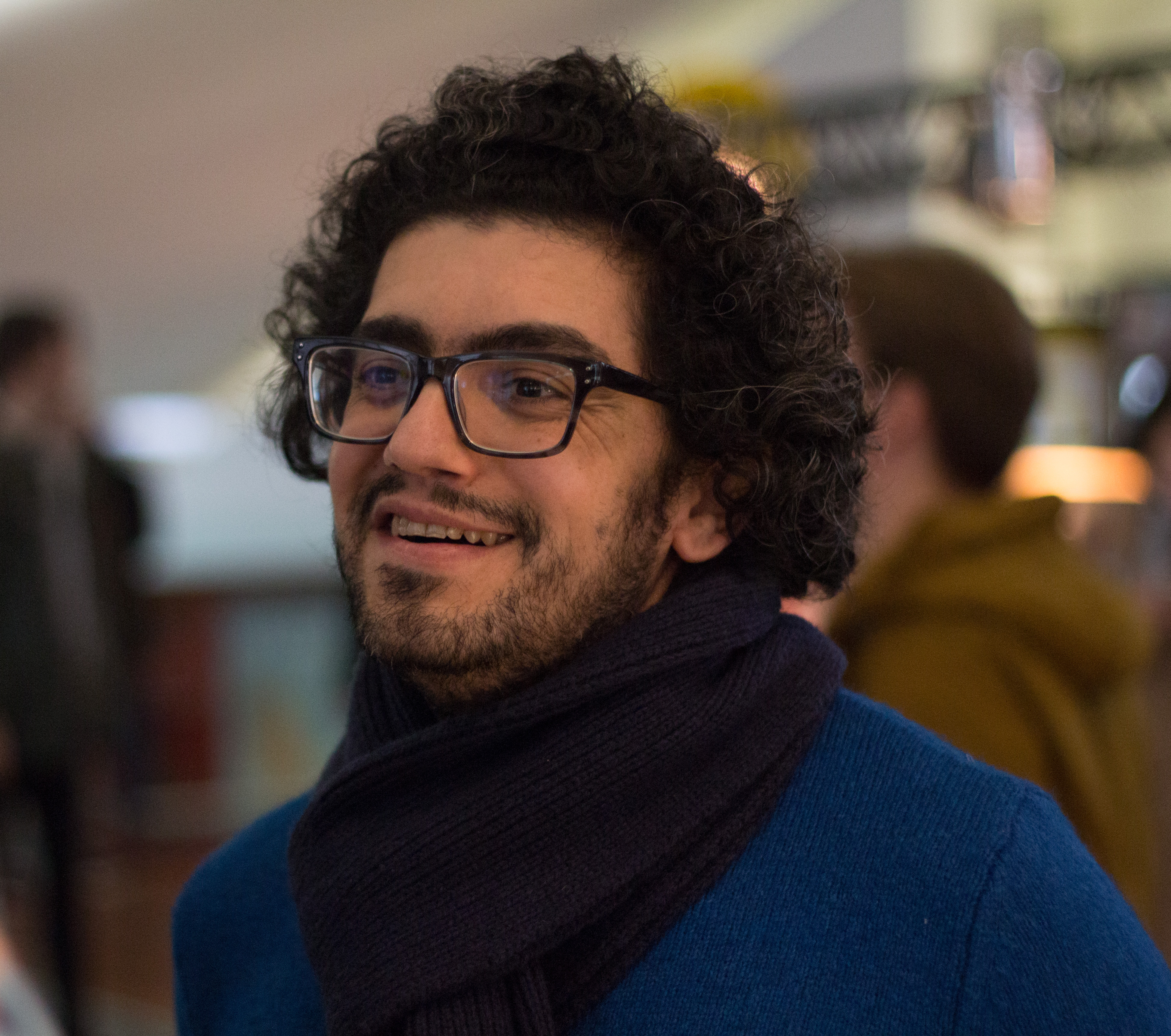 after the premiere of No Shooting Stars